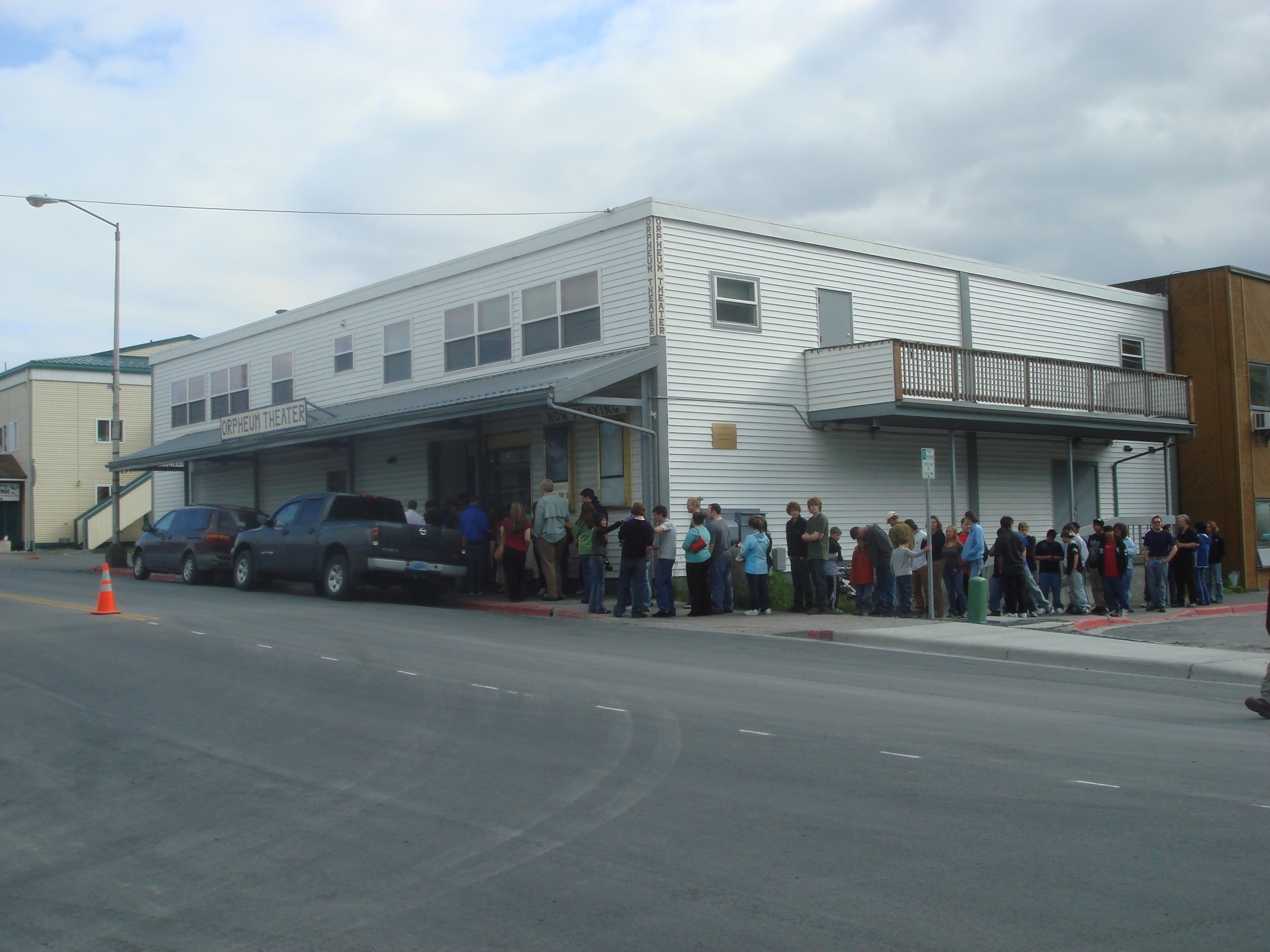 Kodiak islands movie theater.."Another one is on the coast guard base"